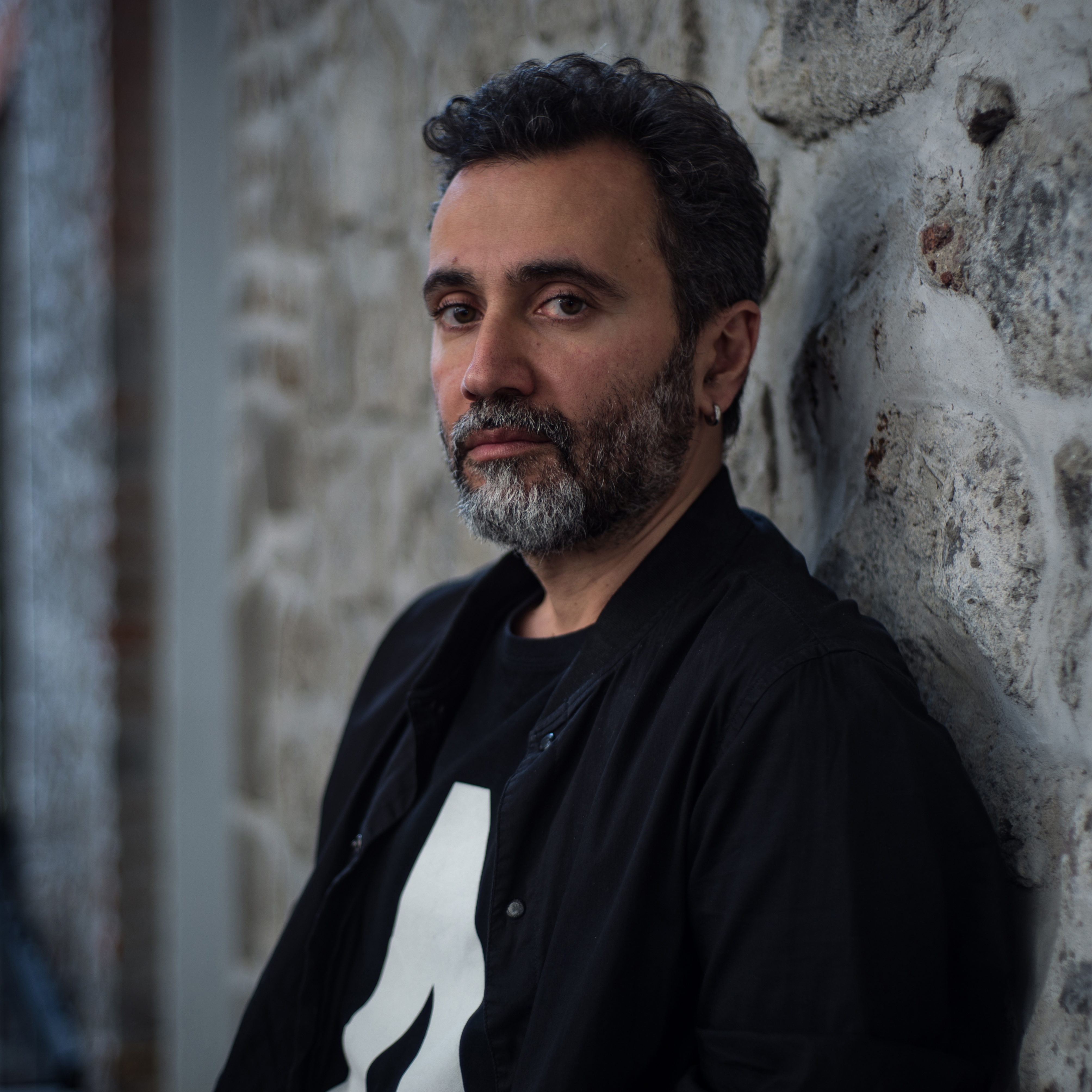 Talal Derki, director of documentary "Of Fathers and Sons". Picture taken by Alfredo Sanchez in Mexico for Ambulante Festival.